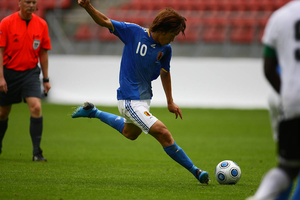 SEPTEMBER 9, 2009 - Football : Shunsuke Nakamura of Japan in action during the international friendly match between Japan and Ghana at Galgenwaard Stadium on September 9, 2009 in Utrecht, Netherlands. (Photo by Tsutomu Takasu)